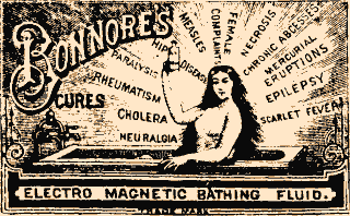 Bonnore's Electromagnetic Bath, a patent medicine label for a product presumably no longer on the market. Bonnore's Electro-Magnetic Bathing Fluid, Louise A. Bonnore - San Jose, CA, registered 1881, U.S. Patent Office.